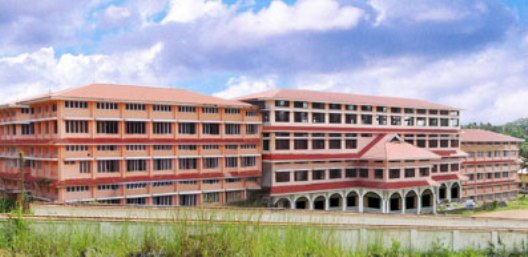 Sree Narayana Gurukulam College Of Engineering, Kadayiruppu, Kolenchery